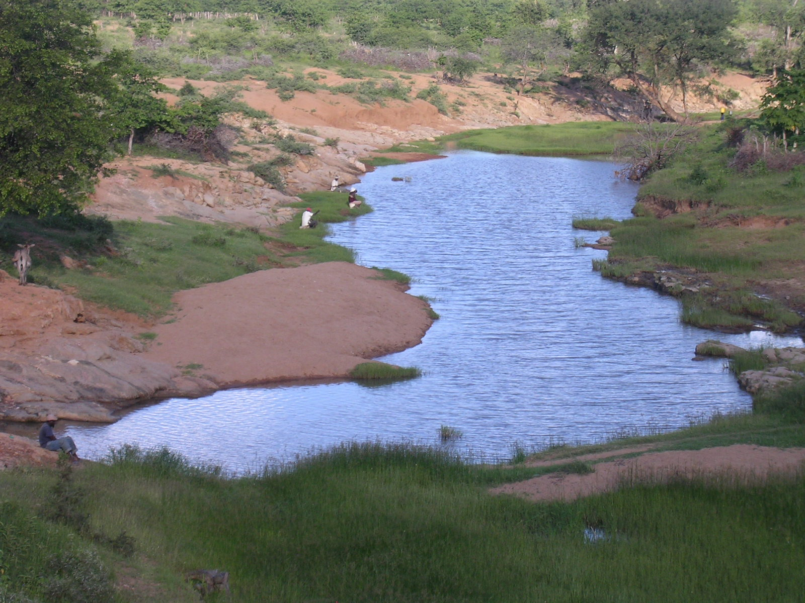 Fishing downstream of Buvuma Dam, Gwanda District, Zimbabwe